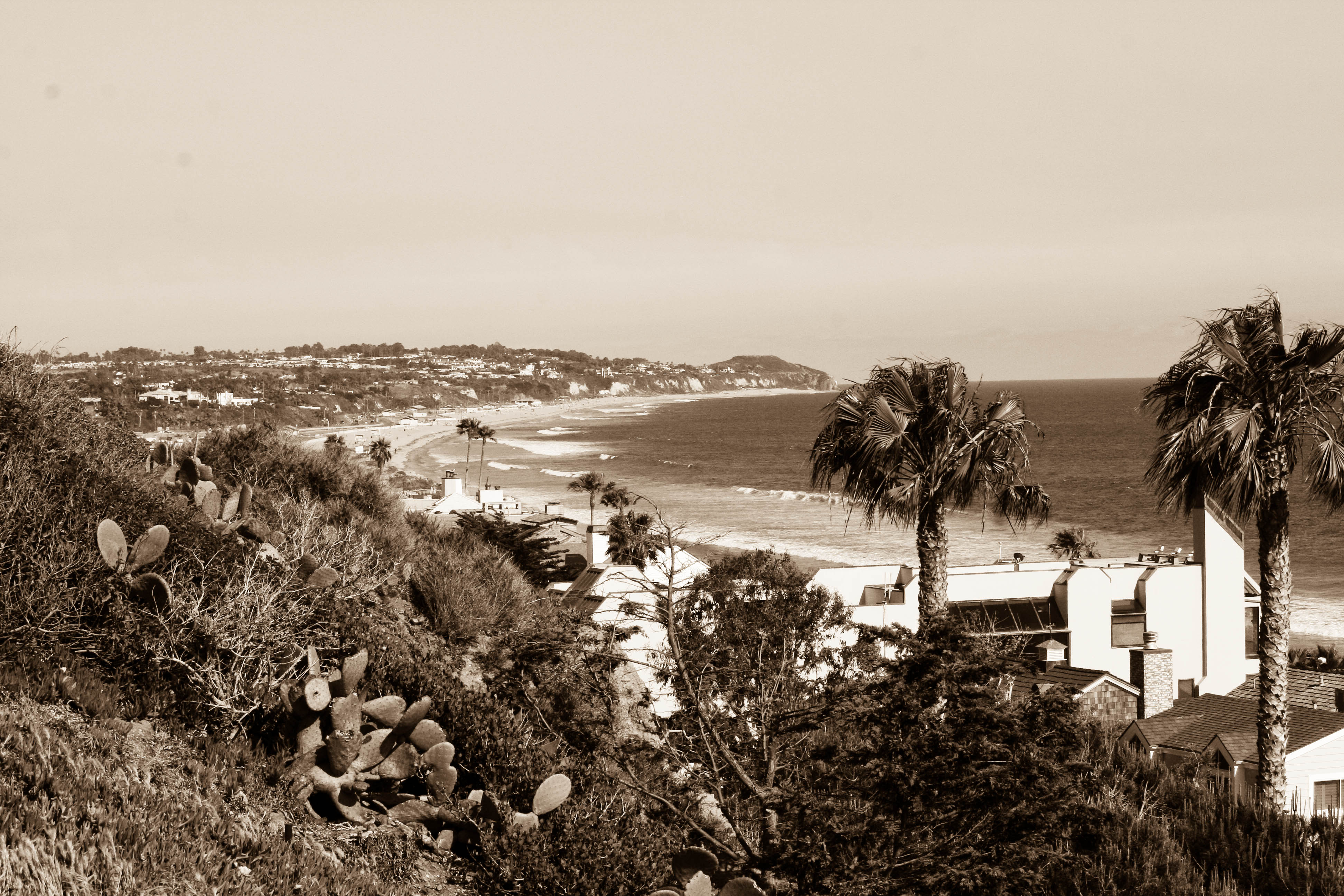 A sepia digital photo of the beach in Malibu